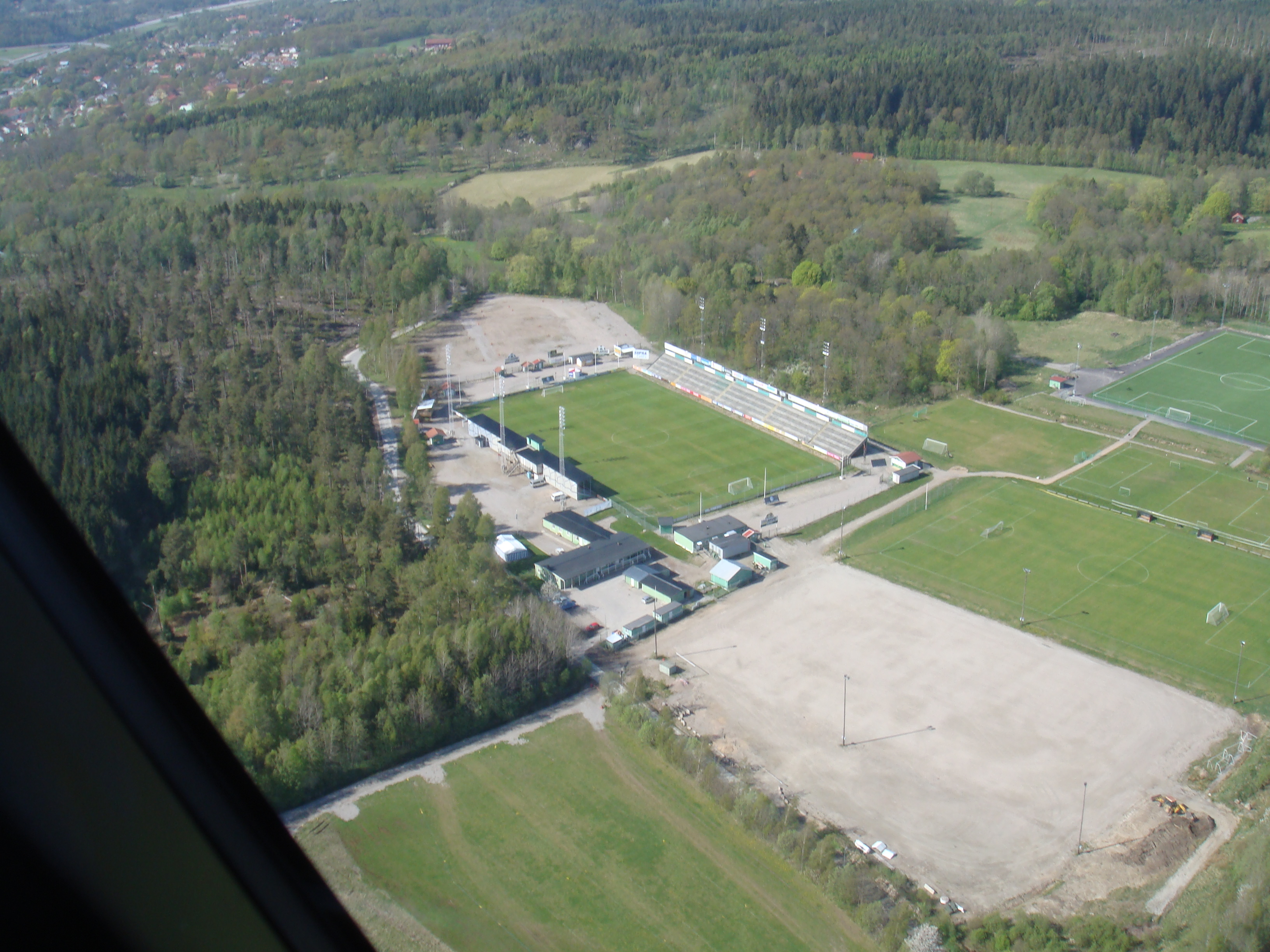 The Ljungskile SK homeground Starke Arvid Arena (2009-05-05) from the skies.